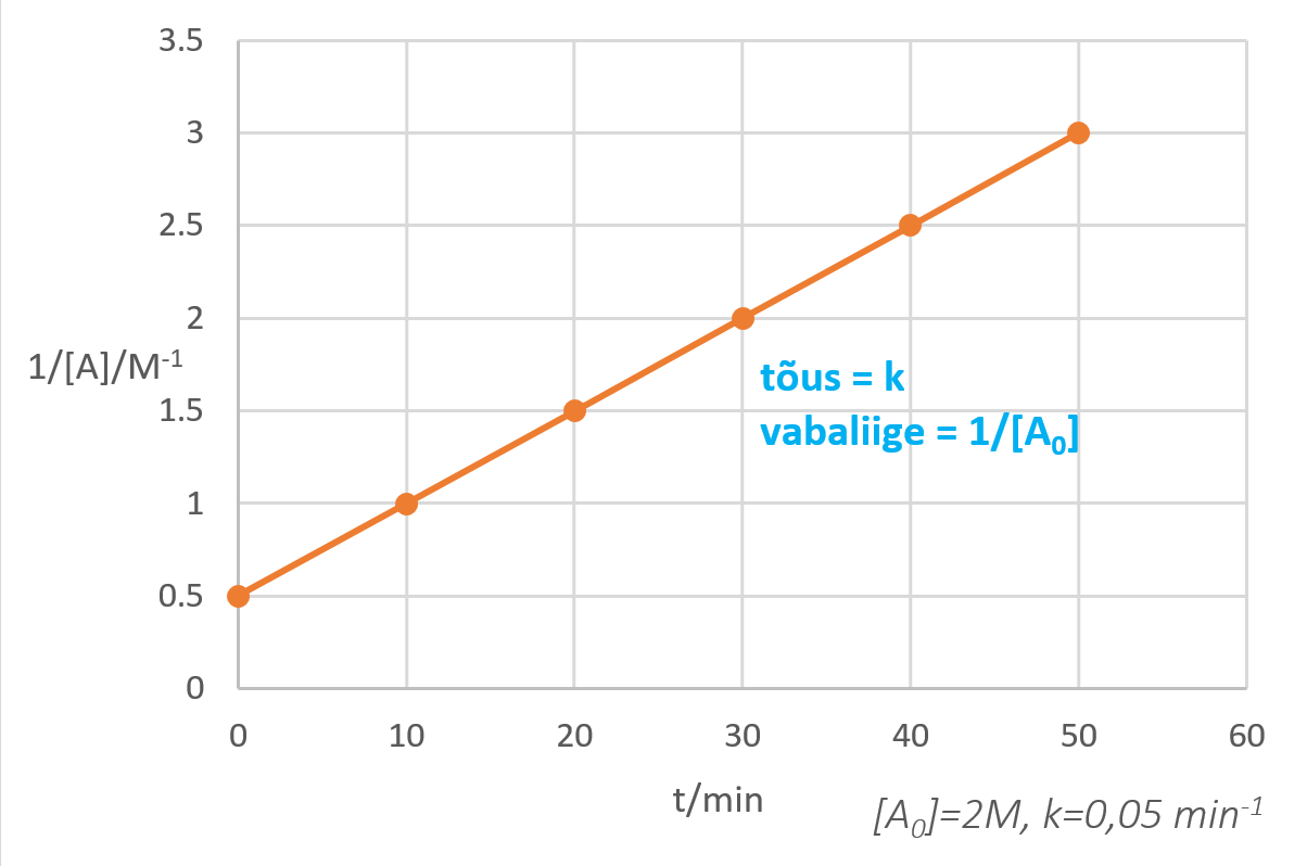 Linear function of zero order reaction.